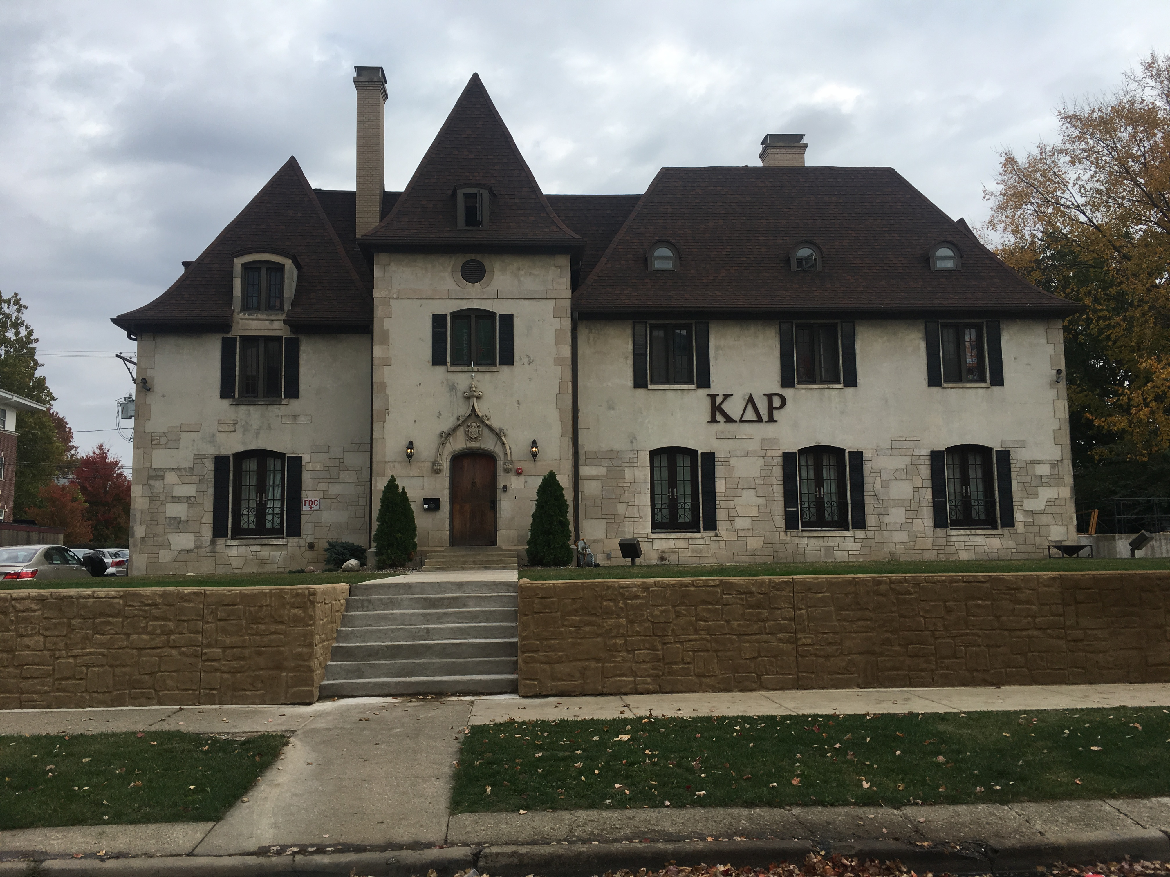 Eta Chapter house of Kappa Delta Rho Fraternity at the University of Illinois at Urbana-Champaign